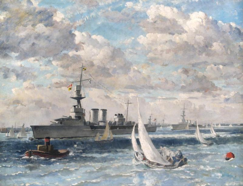 The Harwich Force. Sailing Race image: A sailing race going on amongst several moored Royal Navy light cruiser warships. Six sailing boats are clearly visible, with a tug boat in the left foreground and a light cruiser depicted port side-on, with other Royal Navy vessels moored behind it in the distance. The coastline appears to be visible in the background.